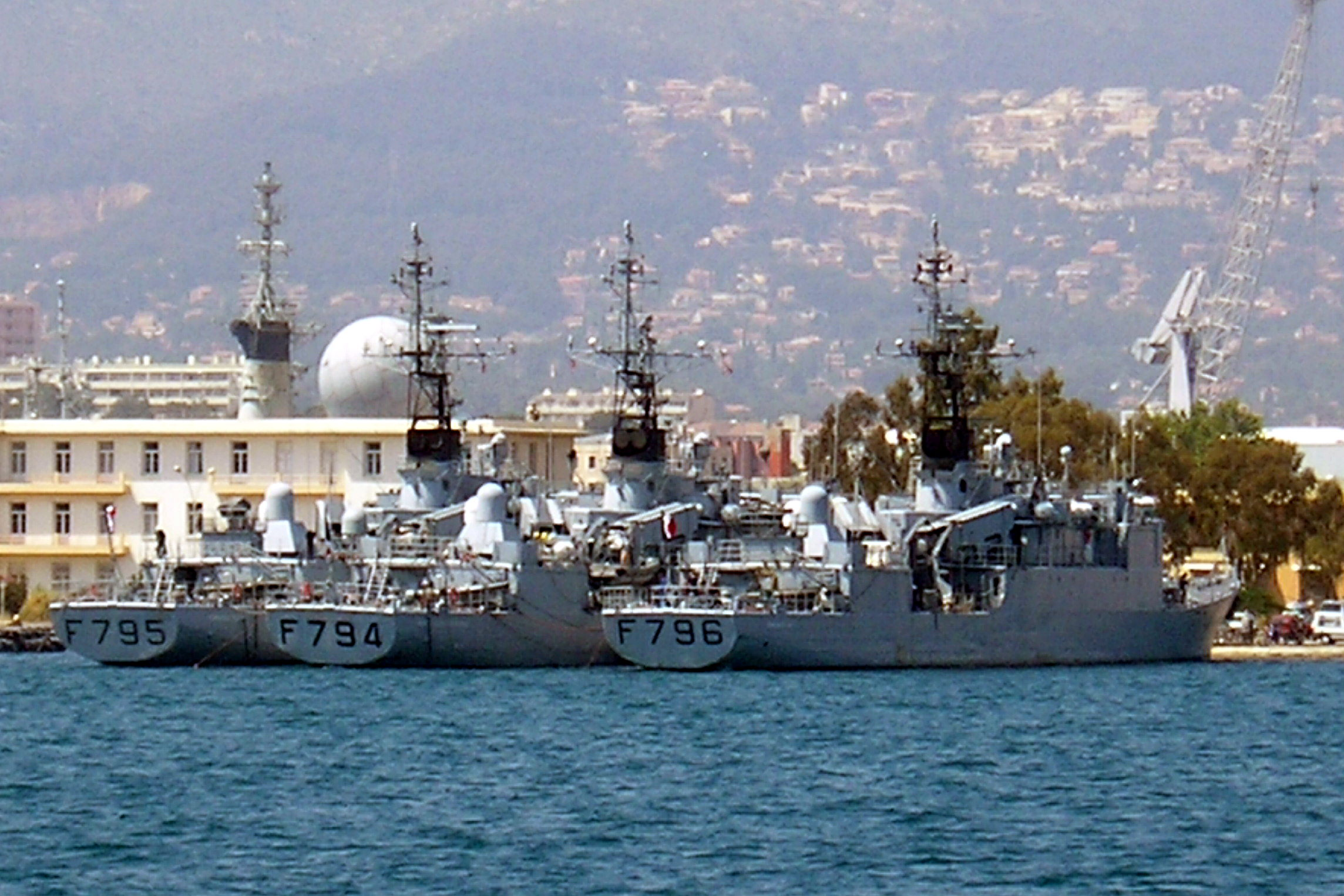 D'Estienne d'Orves-class aviso Cdt Ducuing (F795), Cdt Birot (F796) and EV Jacoubet (F794) in Toulon